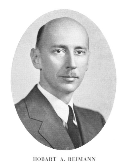 Dr. Hobart A. Reimann 1943, Magee Professor of Medicine, Chairman of the Department of Medicine, Thomas Jefferson Medical College